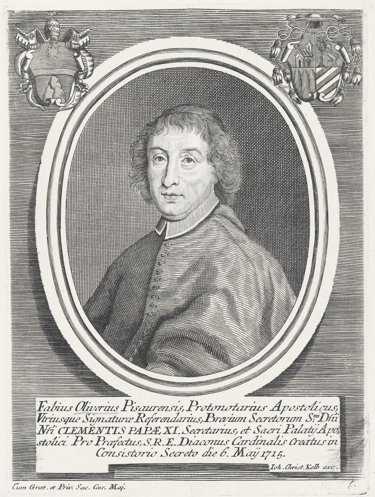 Portrait of Fabio Olivieri (1658-1738)